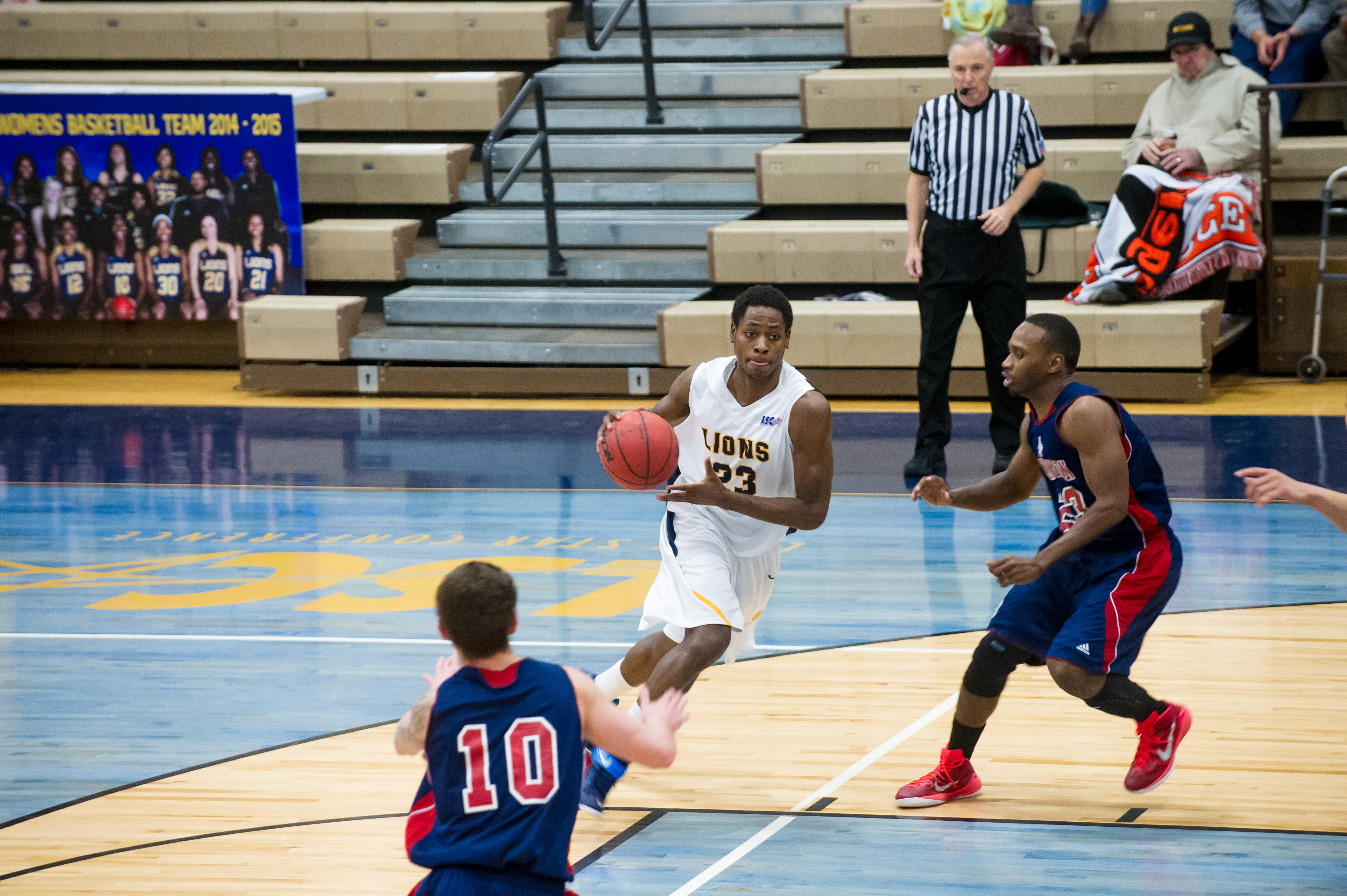 Athletics-MBSK vs ABU-1443.jpg 2013–14 Texas A&M–Commerce Lions men's basketball team